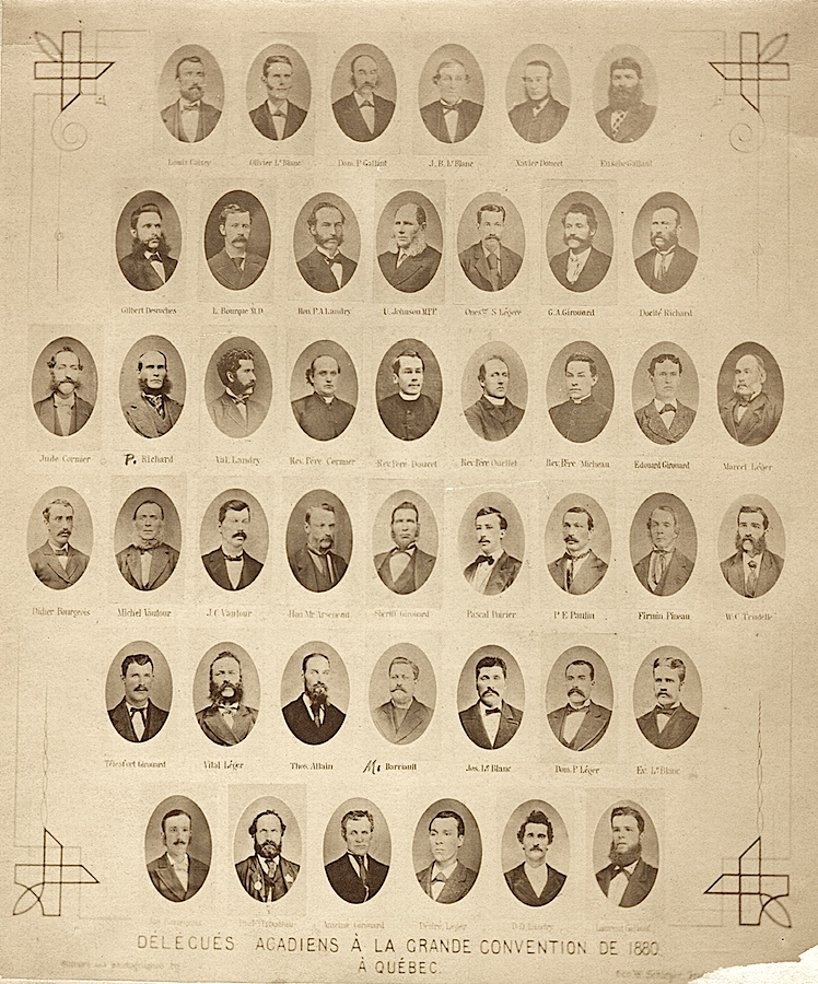 Acadian delegates to the second General Convention of the Frenc Canadians in Quebec City, in 1880.